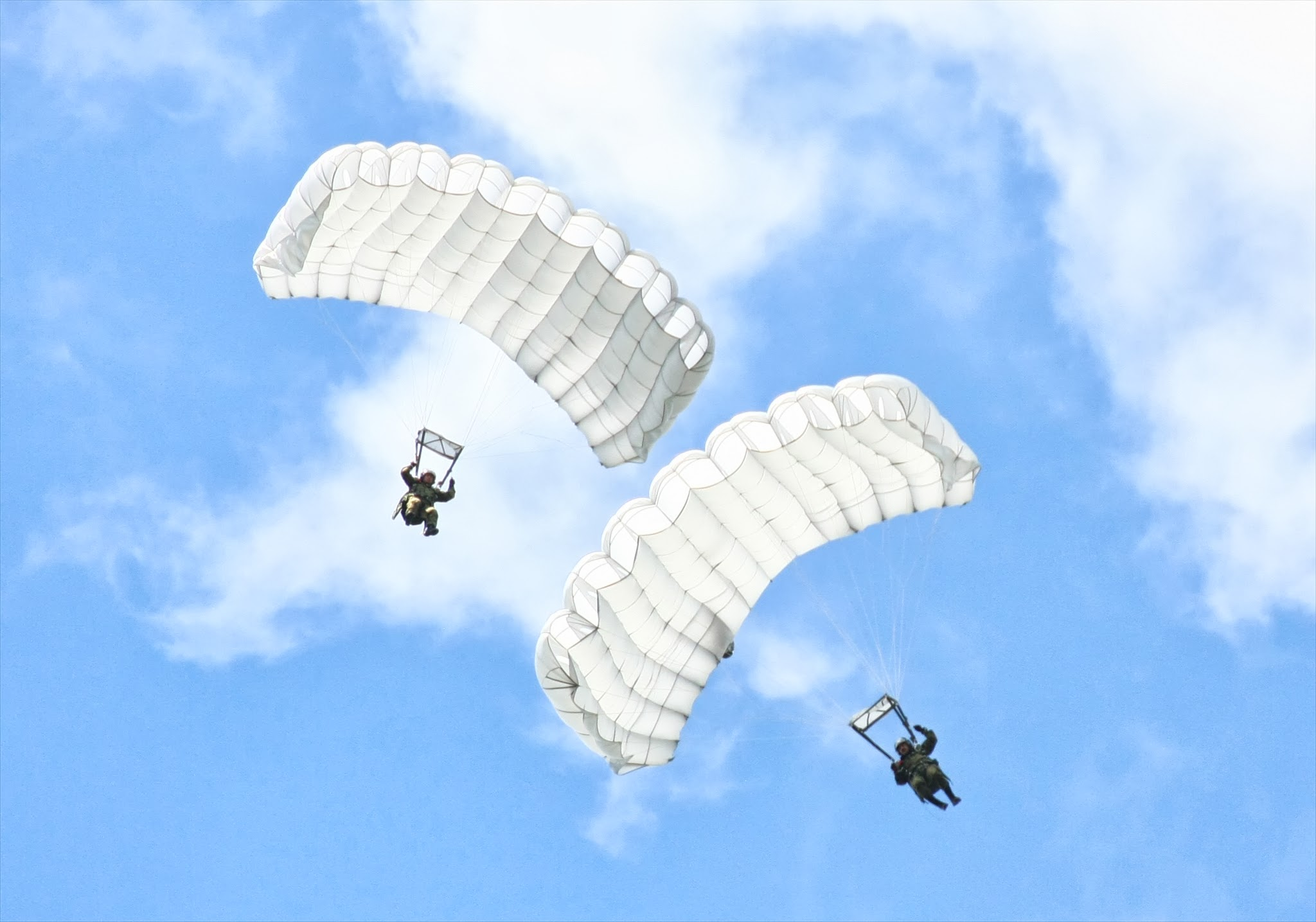 Title 空挺.jpg Album 富士総合火力演習・そうかえん 空挺降下